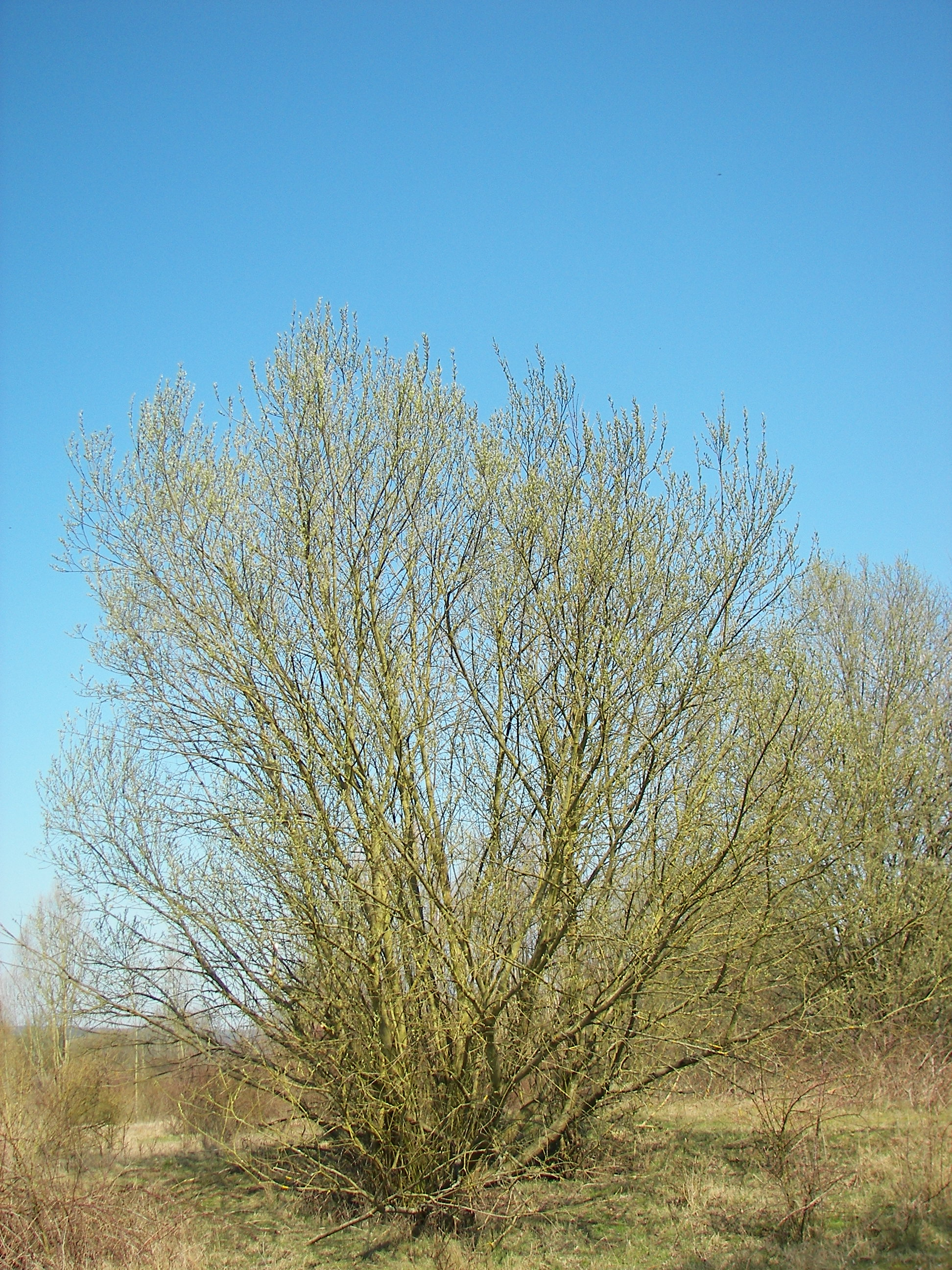 Goat Willow (Salix caprea), female catkins